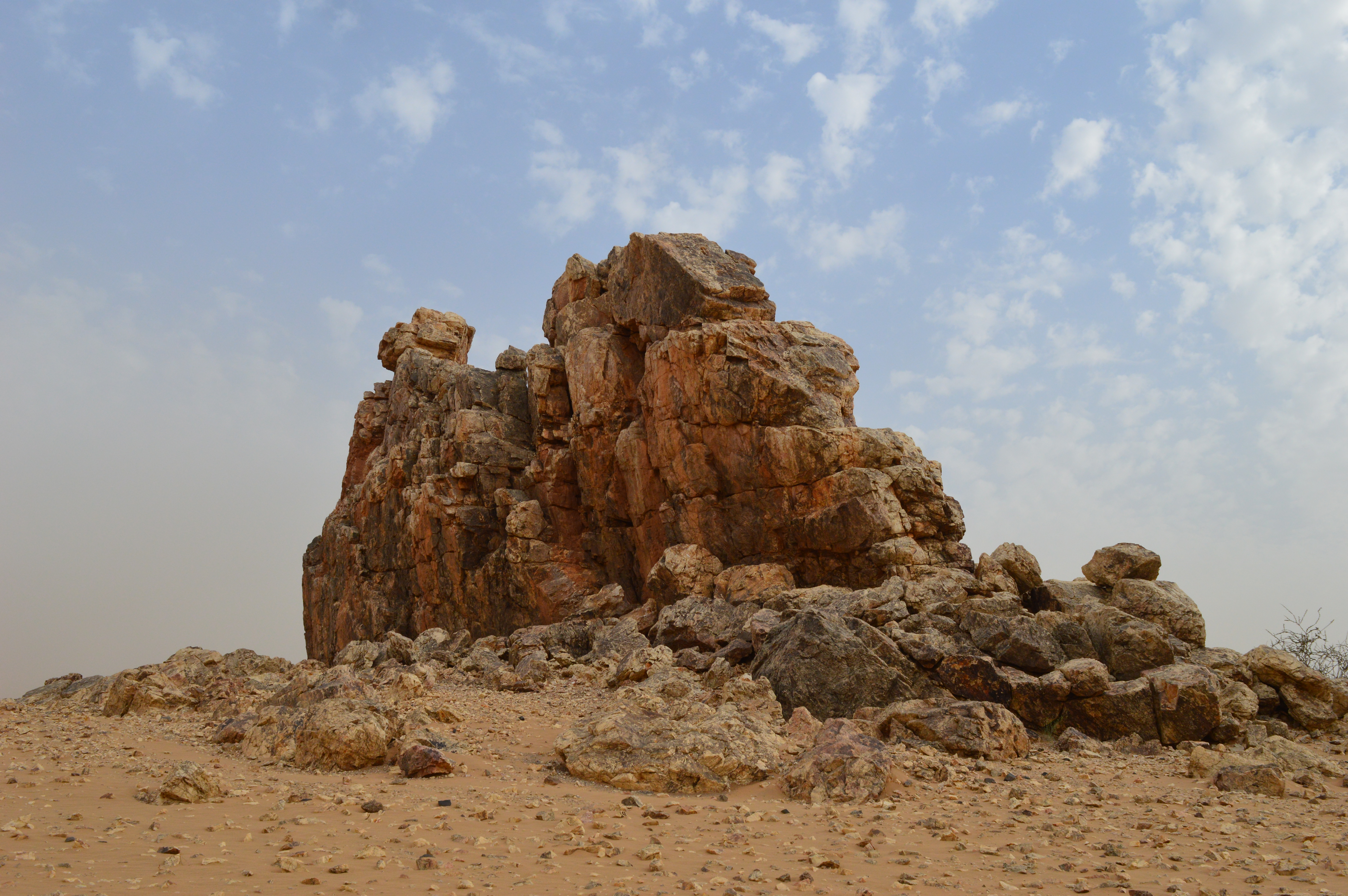 The southern boundary of Egypt's reach